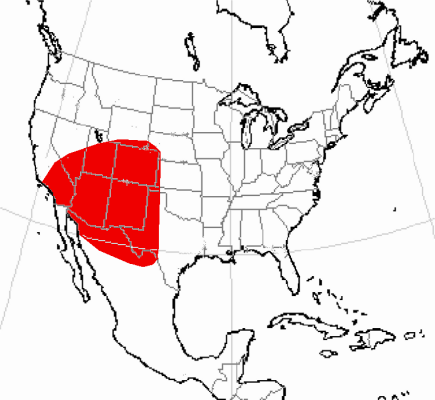 Range of Poabromylus based on fossil recovery